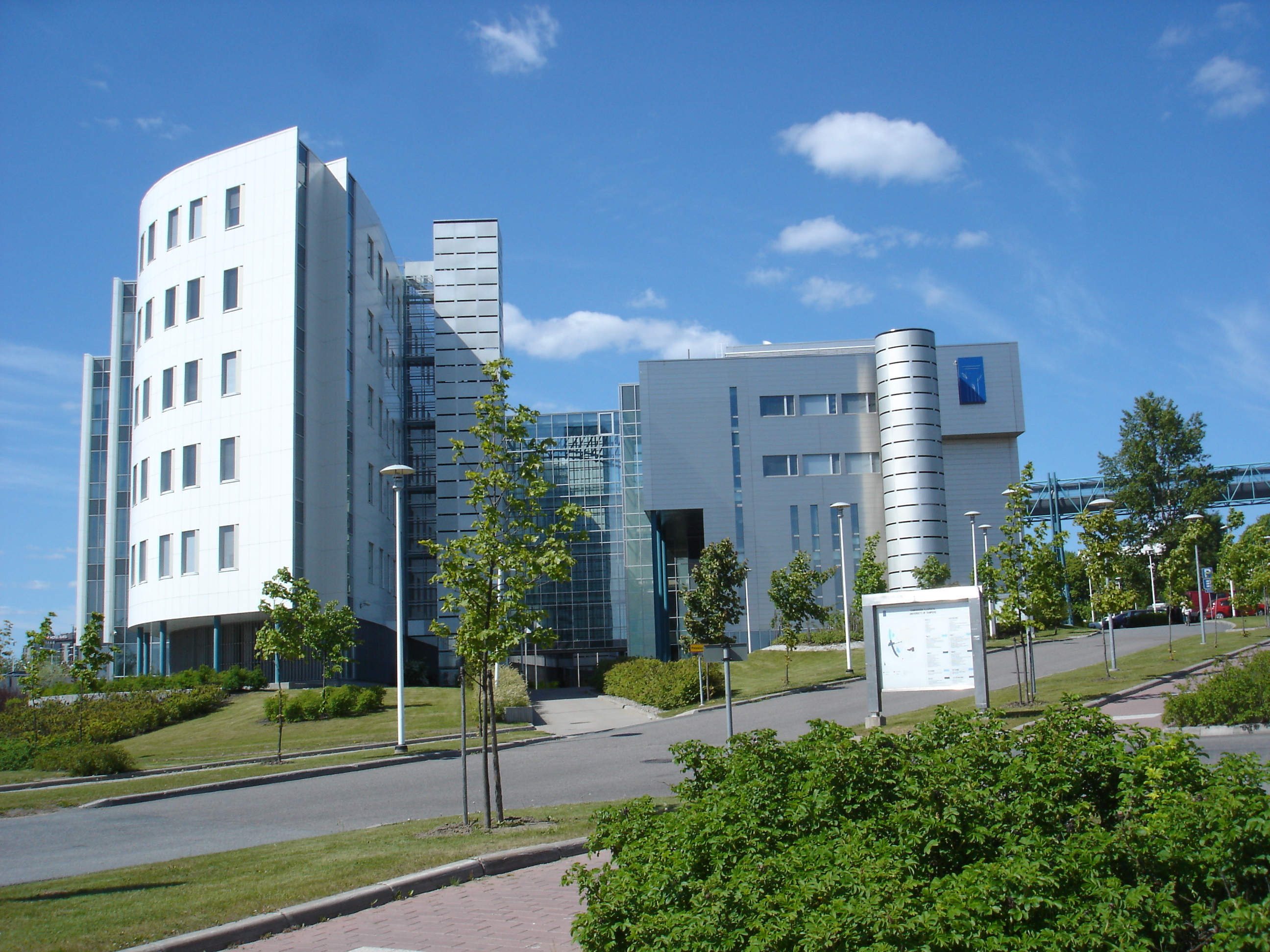 University of Tampere, Pinni B